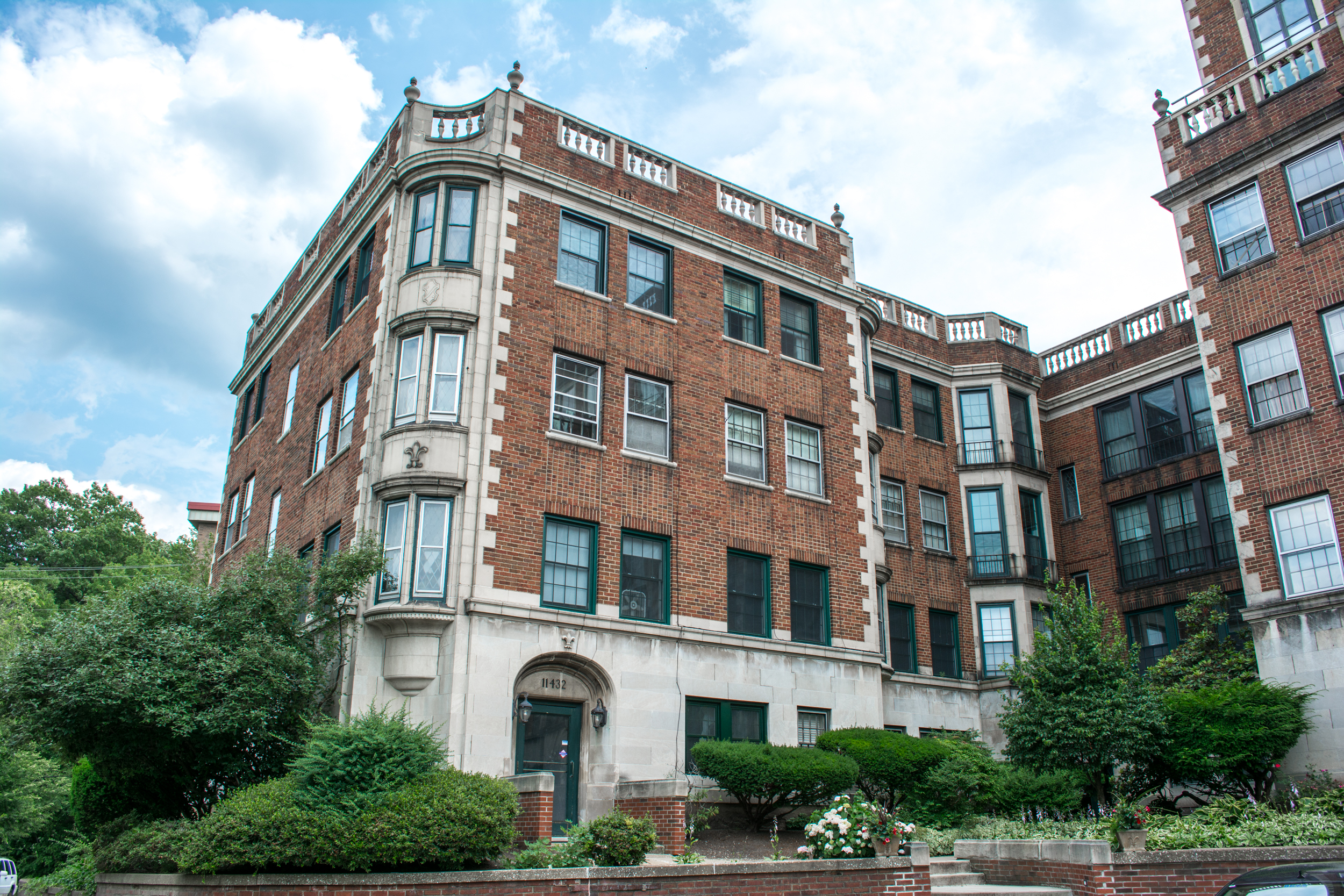 11432 Cedar Glen Parkway in Cleveland, Ohio, in the United States. This building is part of the interconnected Cedar Glen Apartments. Owned and designed by prominent local architect Samuel E. Weis (a.k.a. Samuel E. White), they were completed in 1927. The complex was added to the National Register of Historic Places on June 17, 1994.